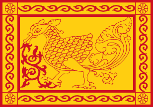 Flag of the Uva Province